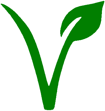 This logo is generally used to indicate 'vegetarian'.